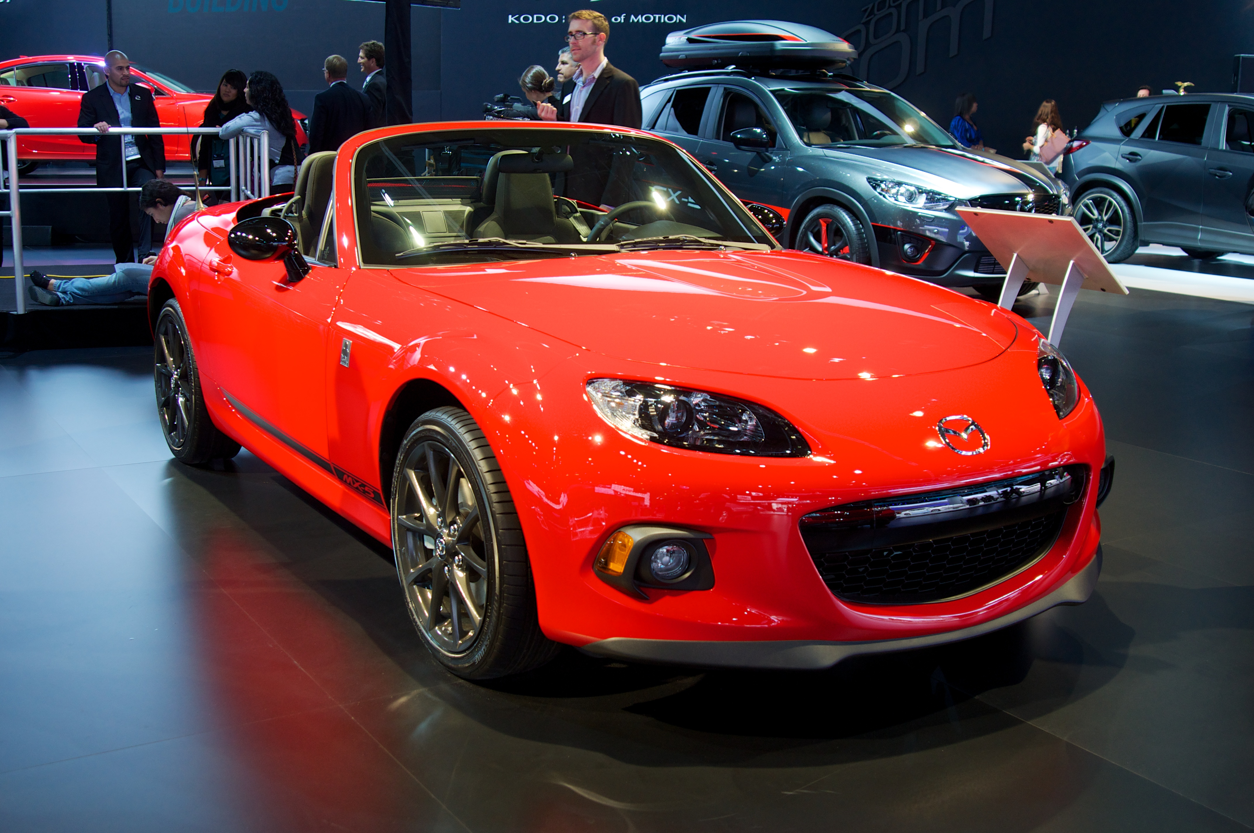 Seen at the 2012 Los Angeles Auto Show. Press day - Wednesday, November 28th. If you use one of my photos, please be so kind as to attribute me and link back to the photo's page. THANK YOU!